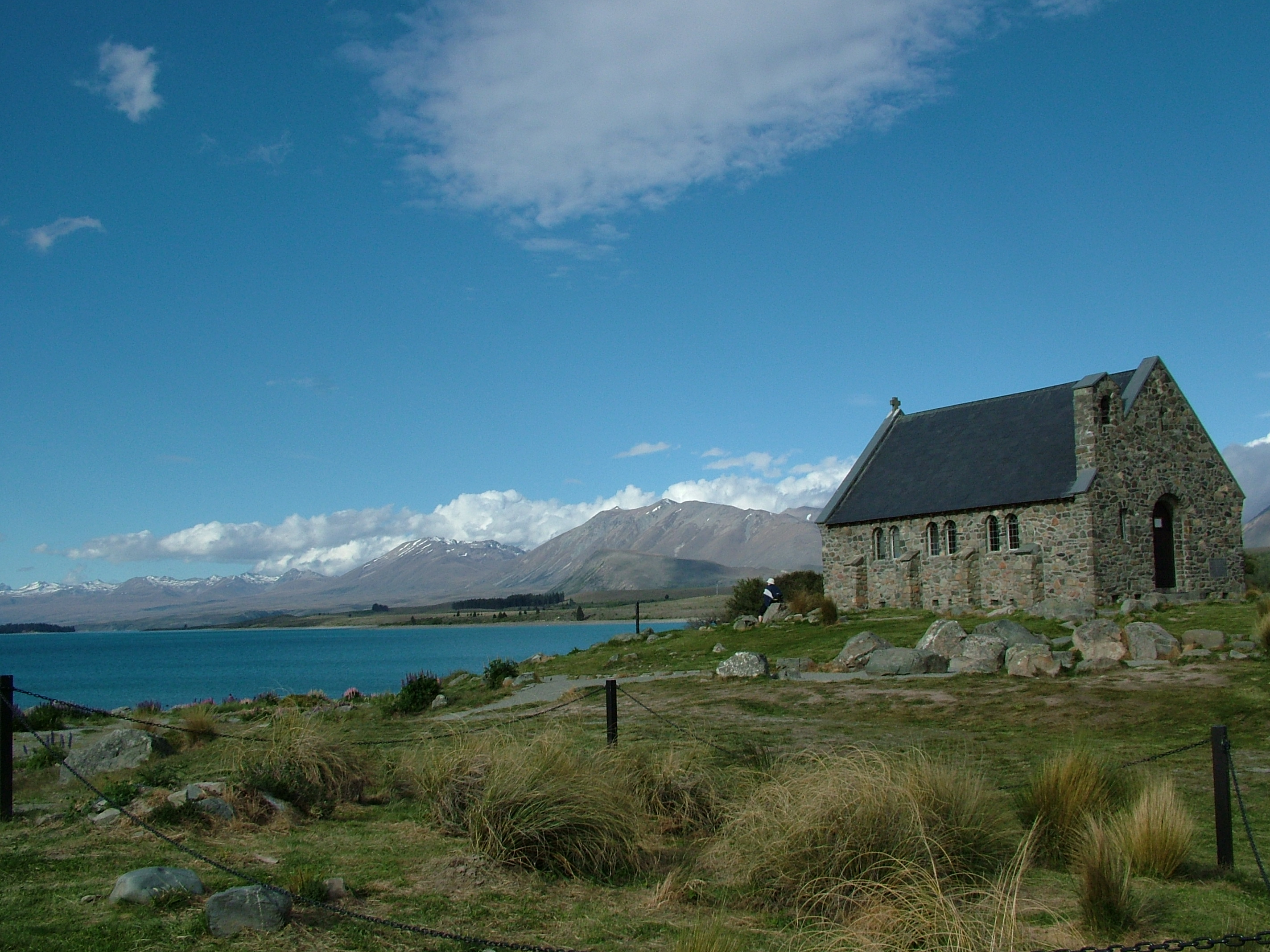 Church of the good shepard, Lake Tekapo, South Island, New Zealand. New Zealand Historic Places Trust Register number: 311.